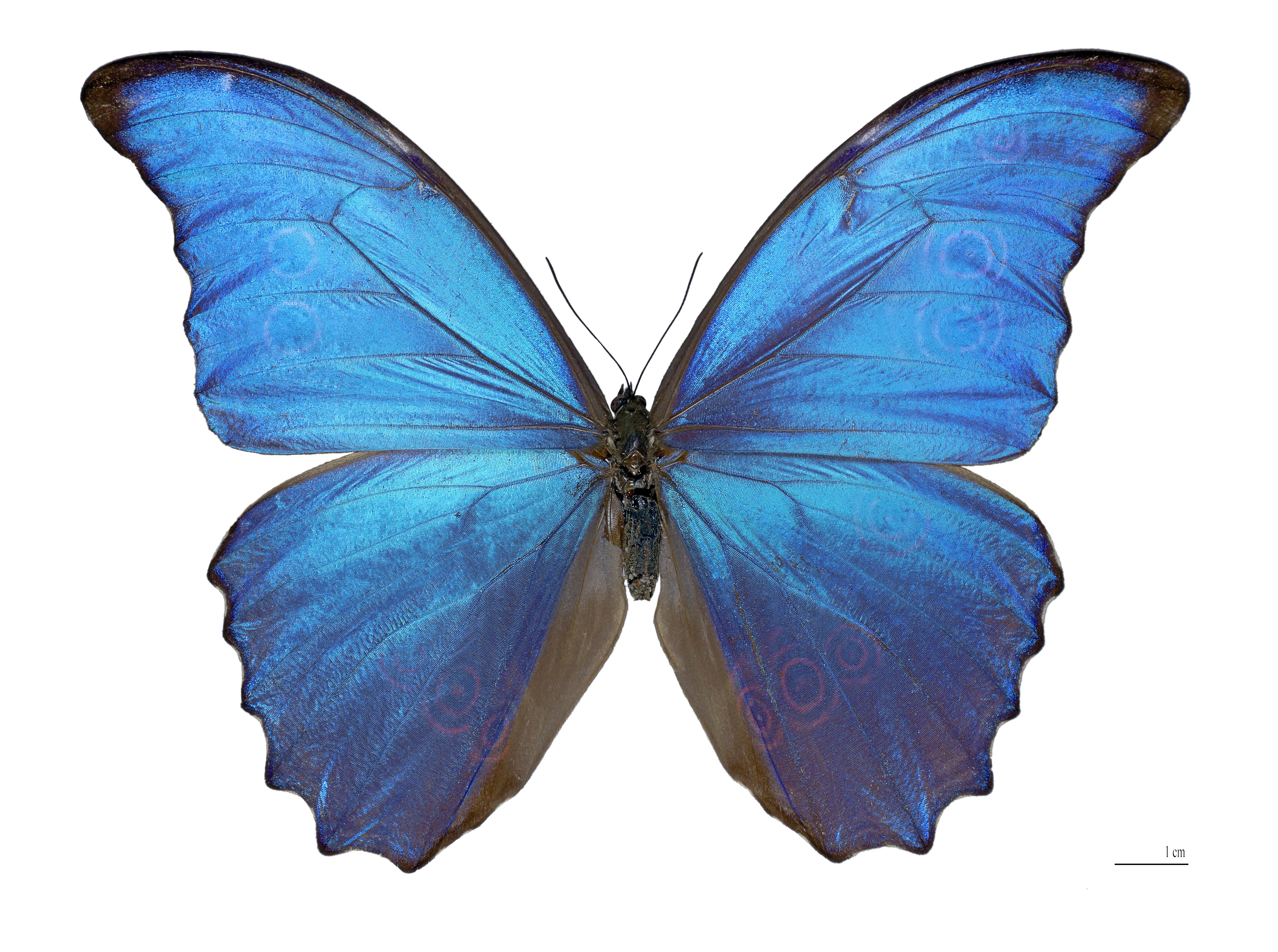 Dorsal view of male butterfly which was captured in Peru and is stored in Muséum de Toulouse.